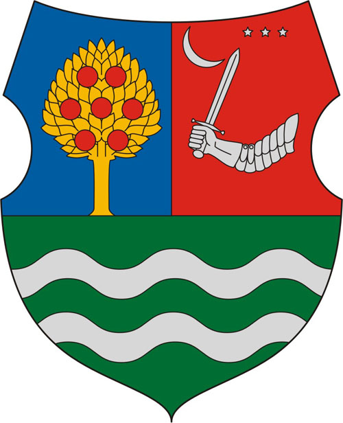 Coat of arms of Nábrád, Hungary